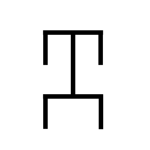 Tamgha of Hulagu Khan. Derived from book Badarch Nyamaa - The coins of Mongol Empire and clan of tamgha of khans